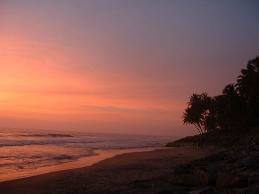 Varkala Beach - every night is this amazing